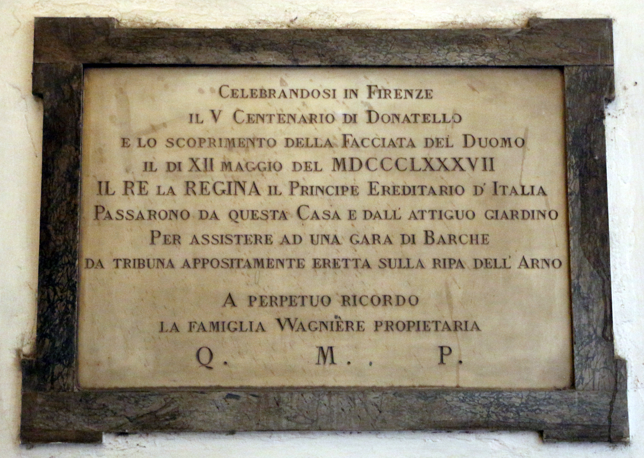 Palazzo Wagnière-Fontana